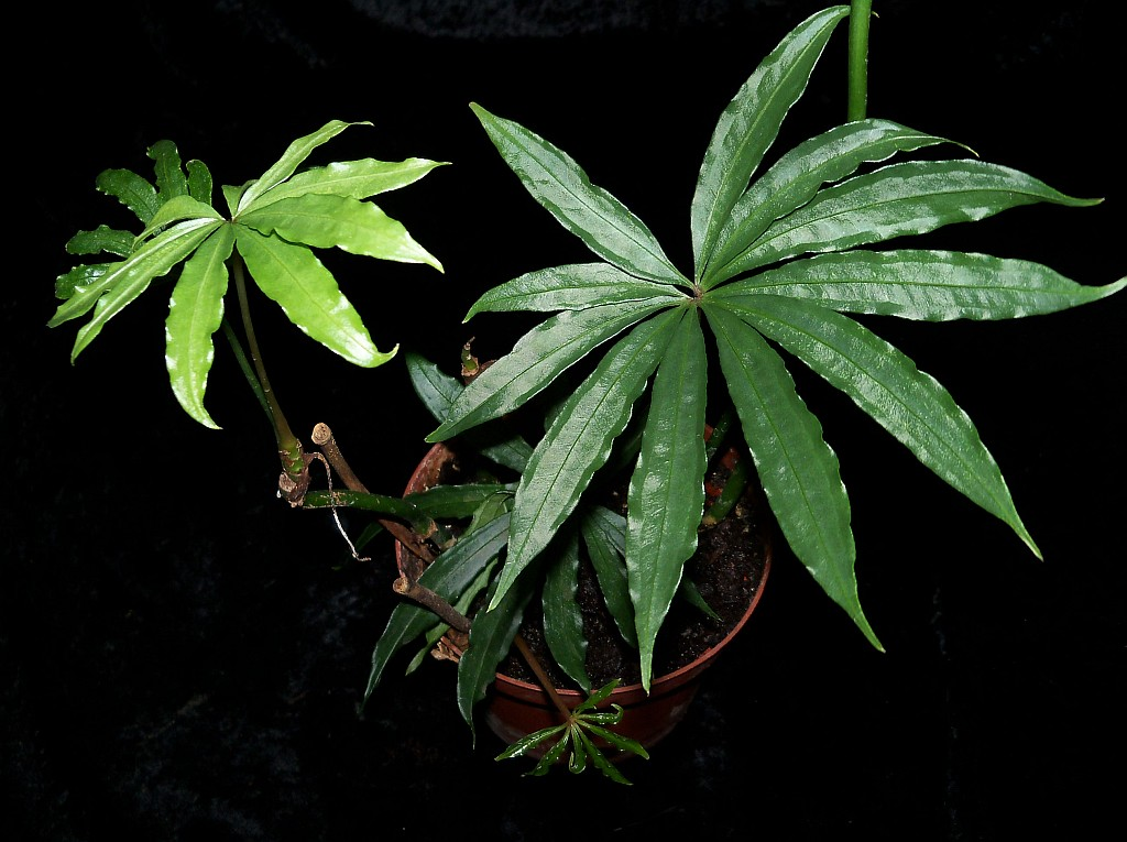 Anthurium polyschistum, a juvenile plant